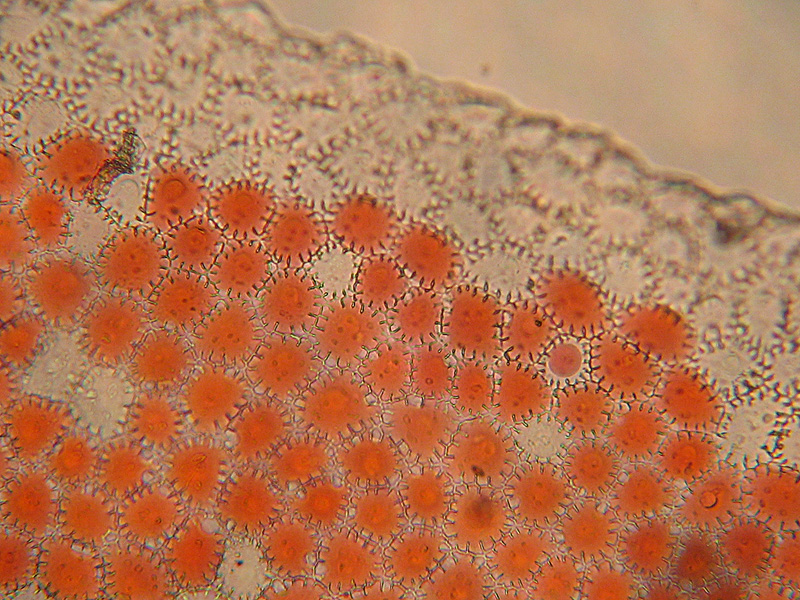 My girlfriend cut the petal this afternoon and took the photo. In this picture there are 3 main levels at different heights: the dept of field of the microscope is very little, here only 1 of the 3 levels is well focused. Please view Large On Black